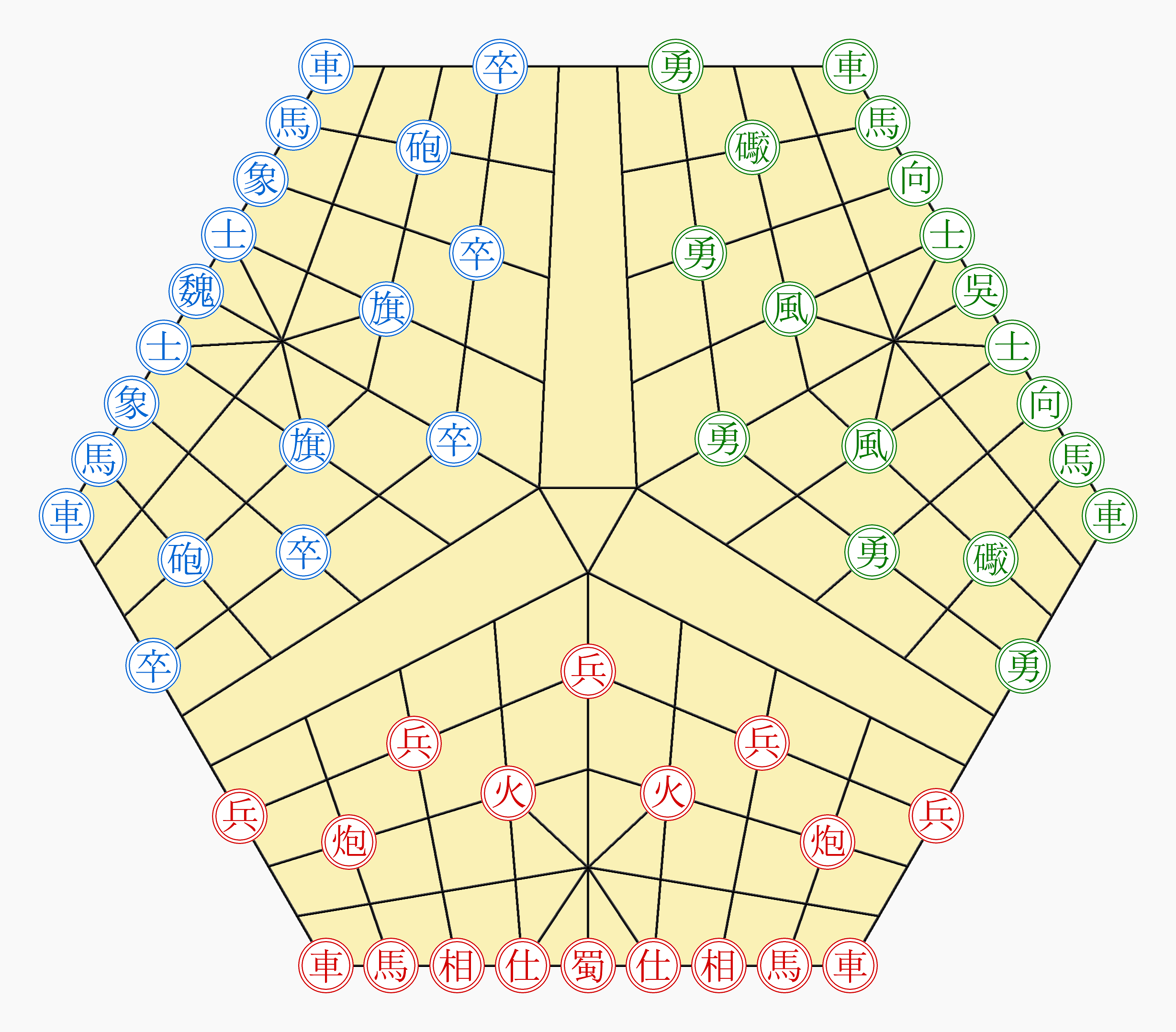 RS Song font, all done in MSPAINT. Thanks to Roleigh Martin for his kind guidance on kanji, Xiangqi, Janggi, and Game of the Three Kingdoms.